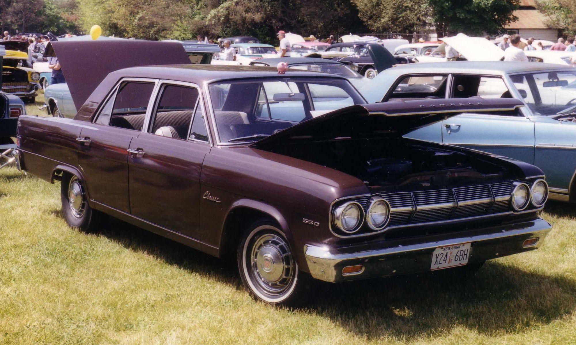 1965 Rambler Classic 550 four-door sedan by American Motors Corporation (AMC). Picture taken at car show in upstate New York in 1998.